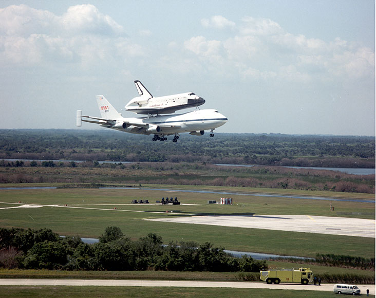 NASA space shuttle orbiter Challenger, riding on the 747/shuttle carrier aircraft, returns to Kennedy Space Center after landing at Edwards Air Force Base in California at the conclusion of its mission, April 1984.